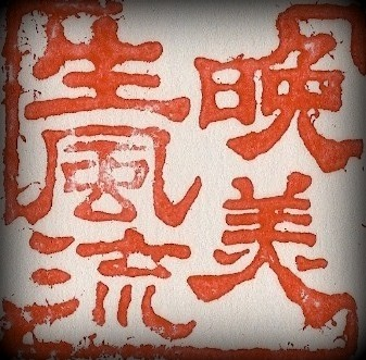 18. Signatures or marks of ownership in Japanese culture come in stamps and are called hanko. Above is the Banmi Shofu (晩美生風流) hanko which is the seal and signature for official documents like teaching and attendance certificates.